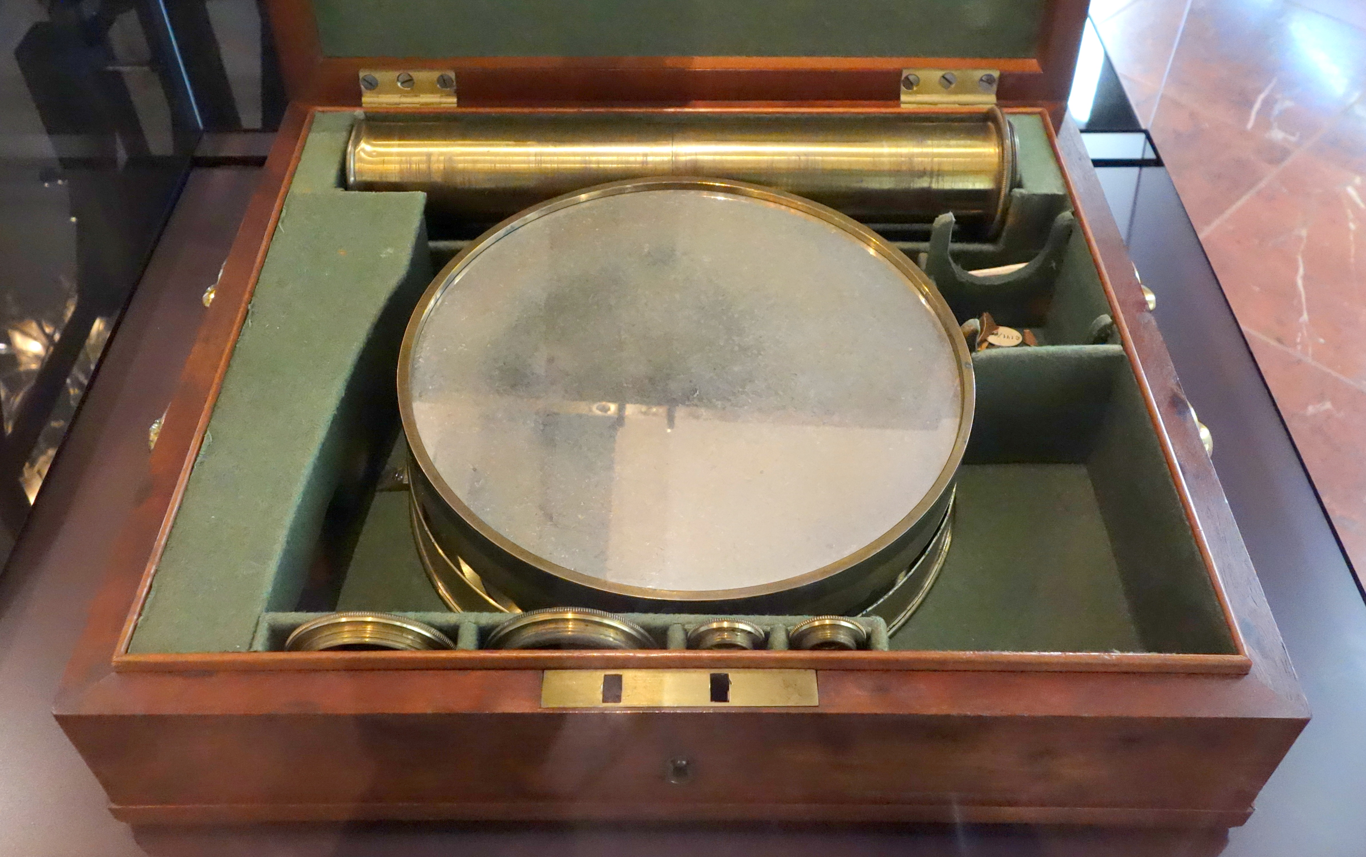 Exhibit in the Mathematisch-Physikalischer Salon (Zwinger), Dresden, Germany. This artwork is old enough so that it is in the public domain.